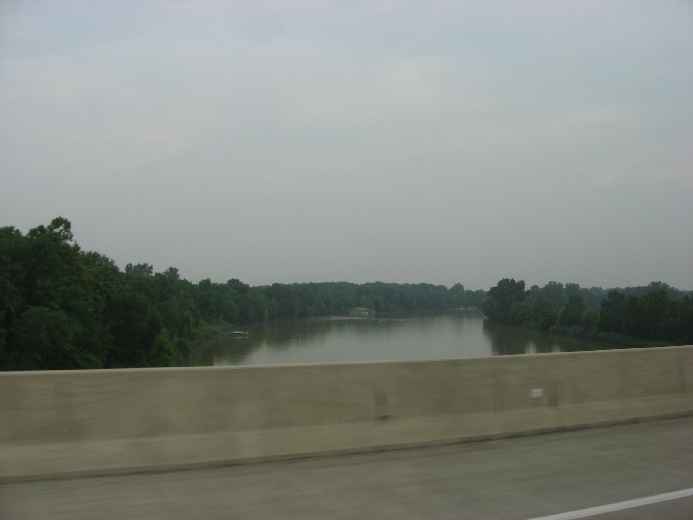 Downstream along the Sandusky River below Fremont, along the border between Sandusky and Rice townships in Sandusky County, Ohio, United States. Picture taken looking northward from the concurrent Interstates 80/90 (the Ohio Turnpike).